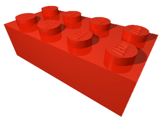 Red 2 × 4 LEGO brick from the LDraw parts library. Rendered with POV-Ray by the author. Intended to identify articles relating to LEGO.